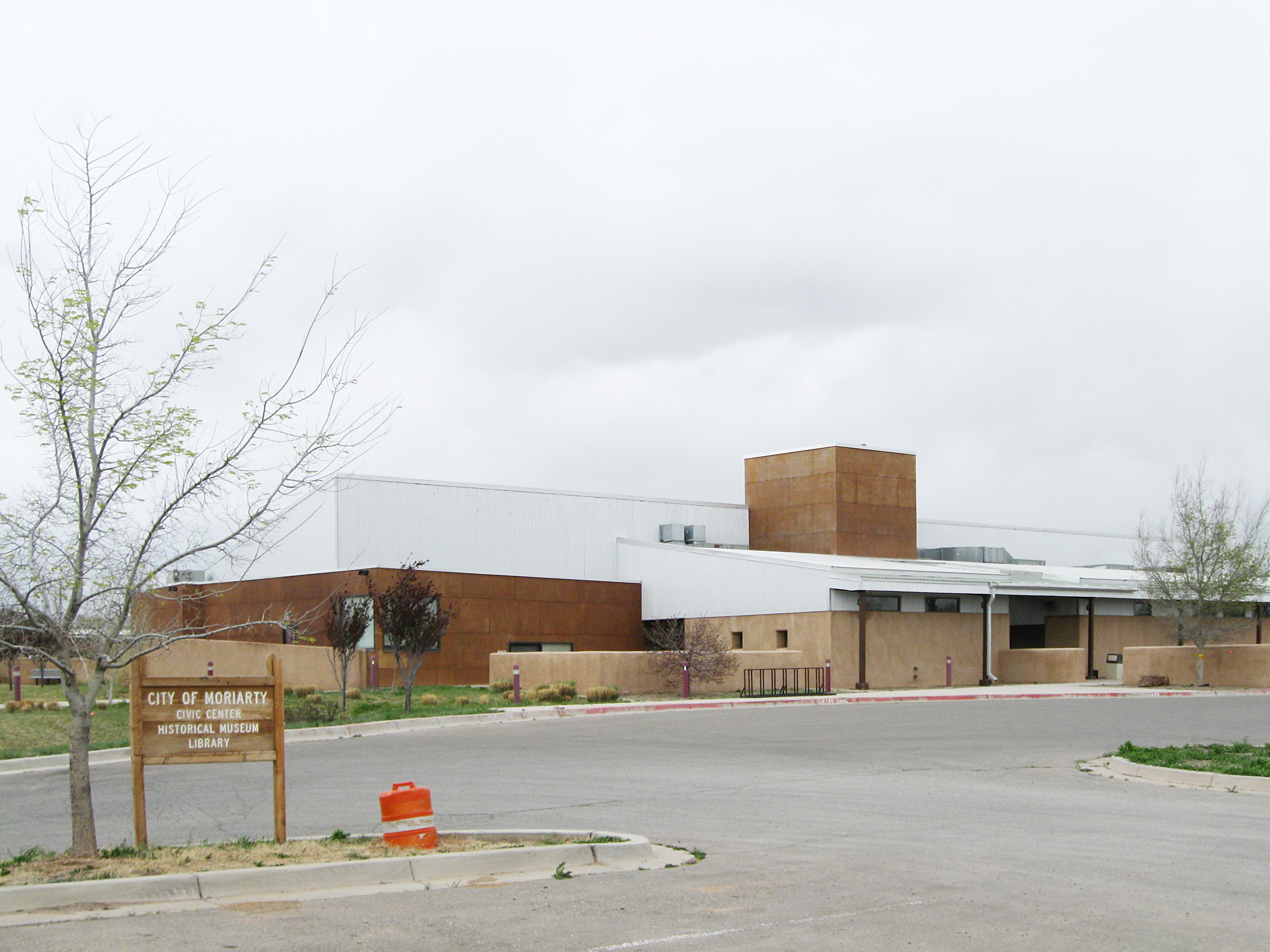 Civic Center in Moriarty, New Mexico; houses the public library and a history museum.